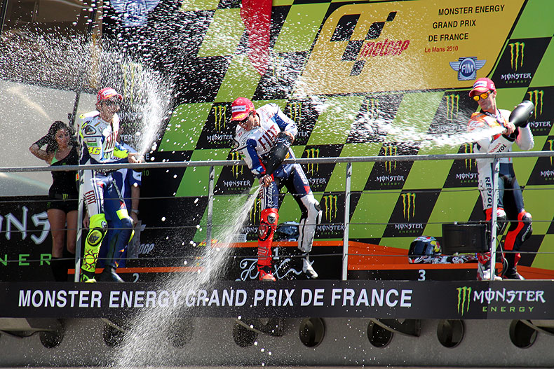 GP of France